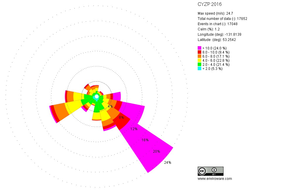 Wind rose showing distribution of wind speed and direction for Sandspit Airport for the year 2016.